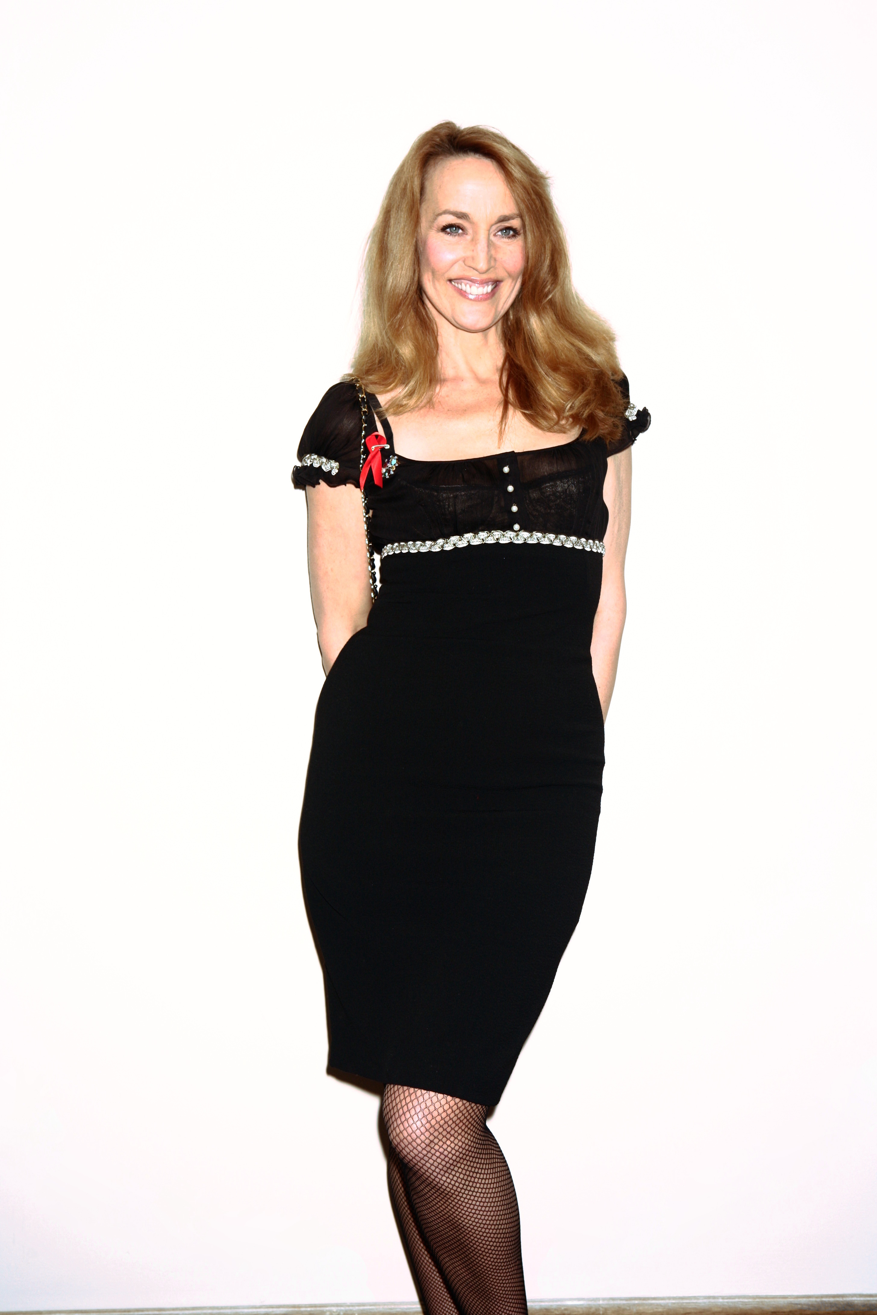 Jerry Hall Lighthouse Gala Auction in aid of Terrence Higgins Trust. Please attribute photo to Piers Allardyce